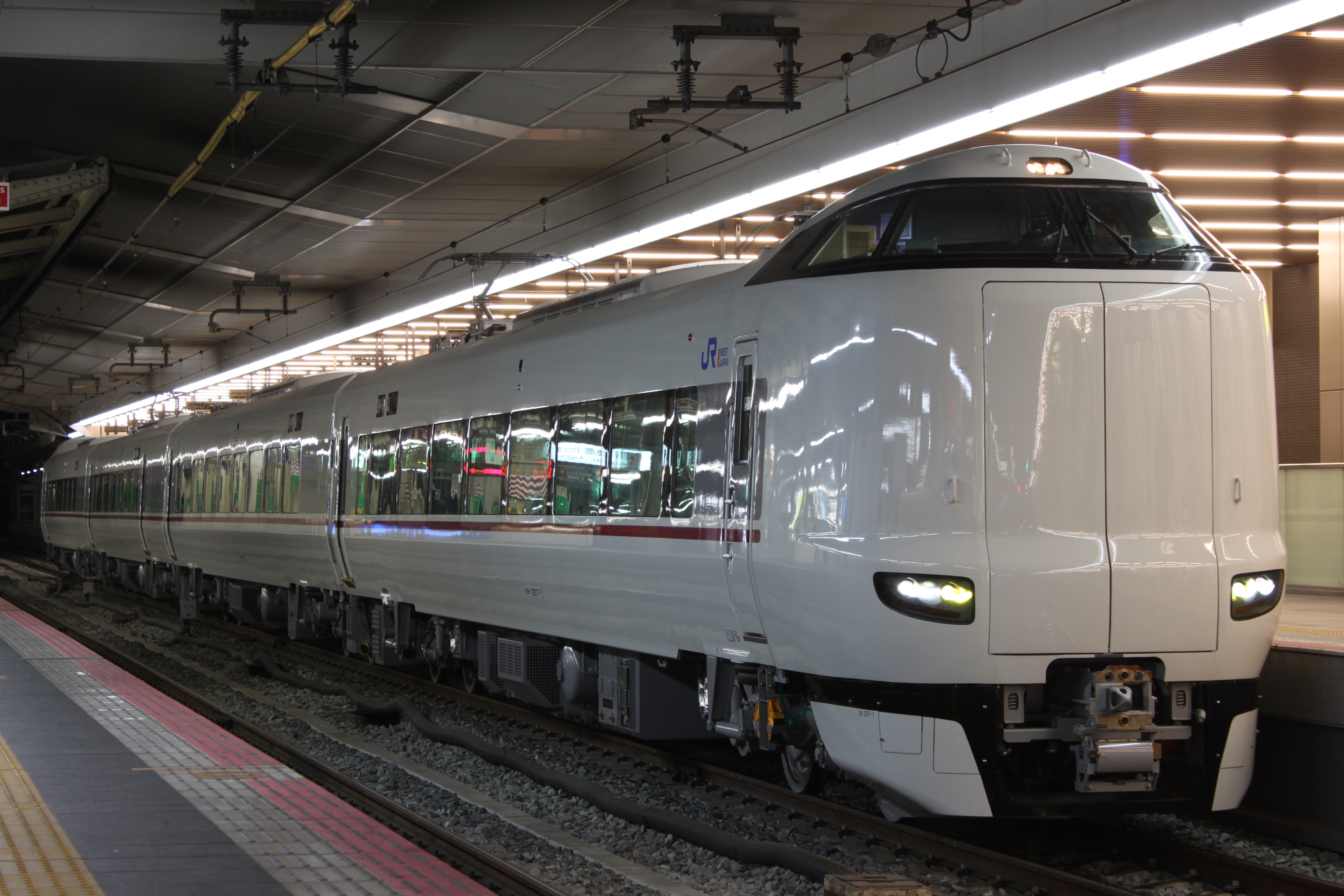 JR West 4-car 287 series EMU undergoing test running at Osaka Station